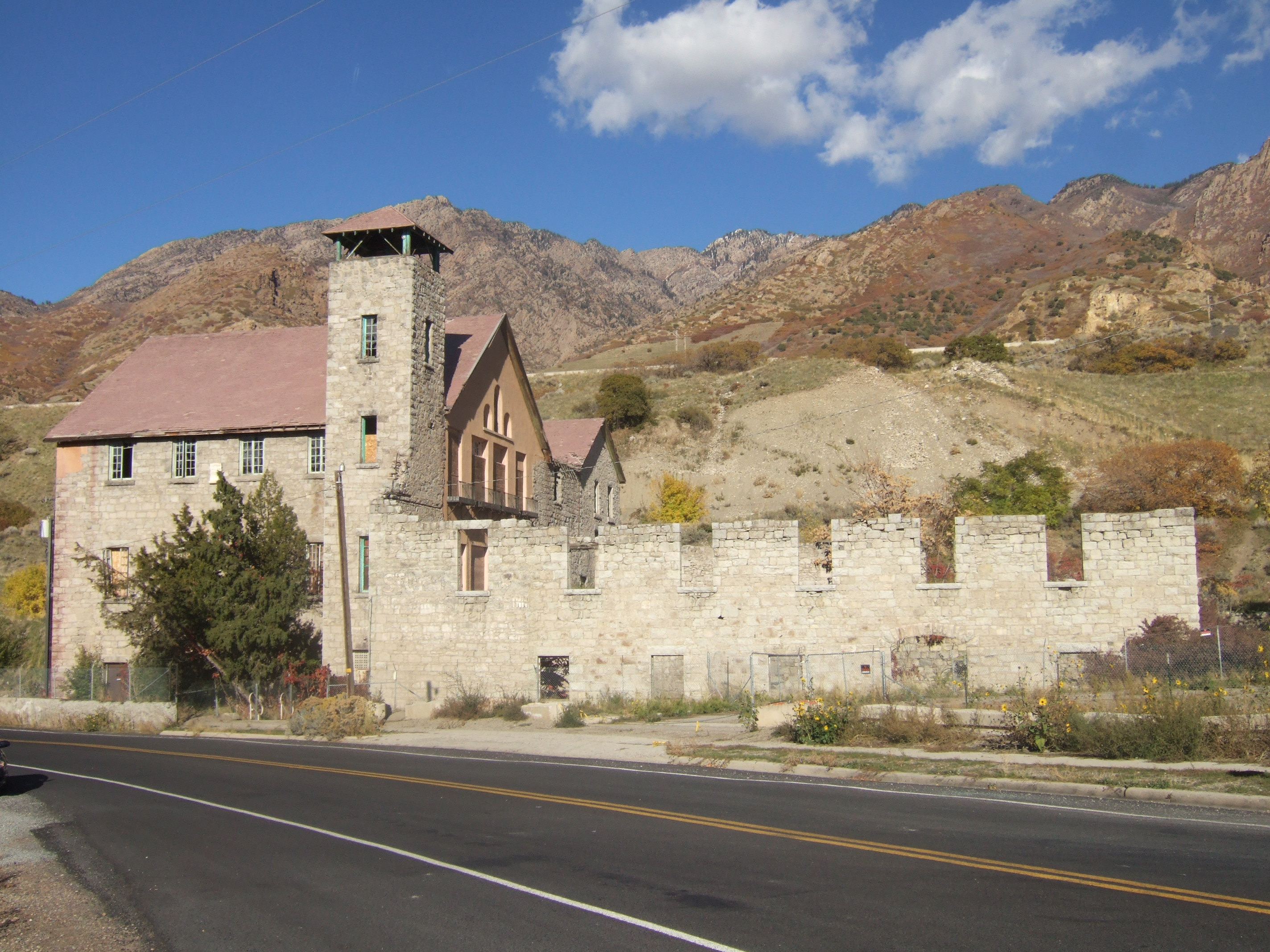 The Cottonwood Paper Mill, located at the mouth of Big Cottonwood Canyon in Cottonwood Heights, Utah.